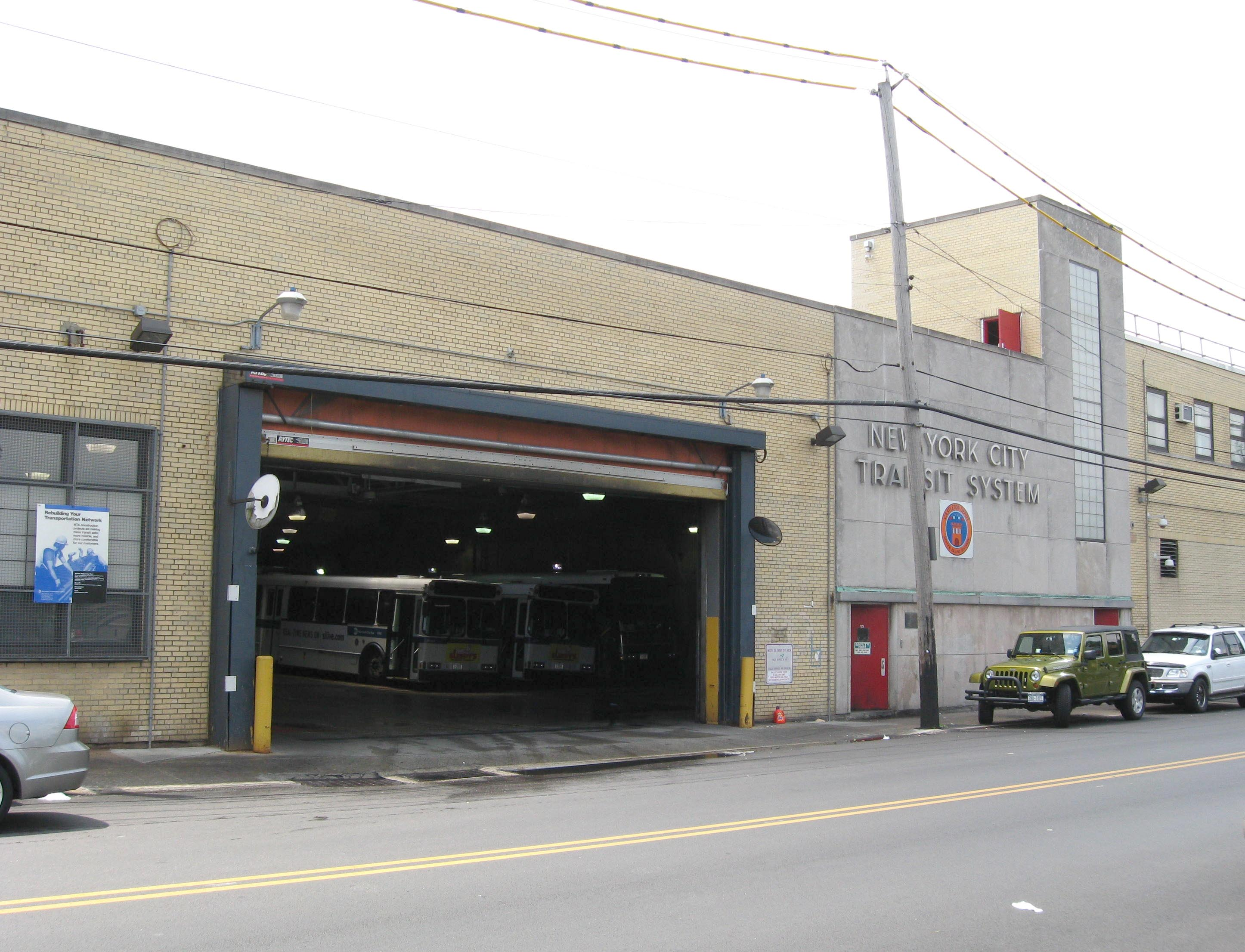 Looking south across Castleton Avenue on a cloudy afternoon in late June 2008 at the bus depot in Castleton, Staten Island.